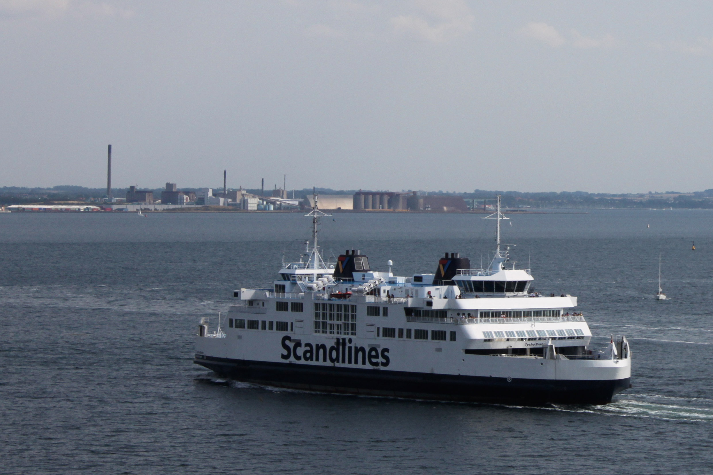 The ferry Tycho Brahe, from Kronborg Castle in Helsingør (with Helsingborg in the background)